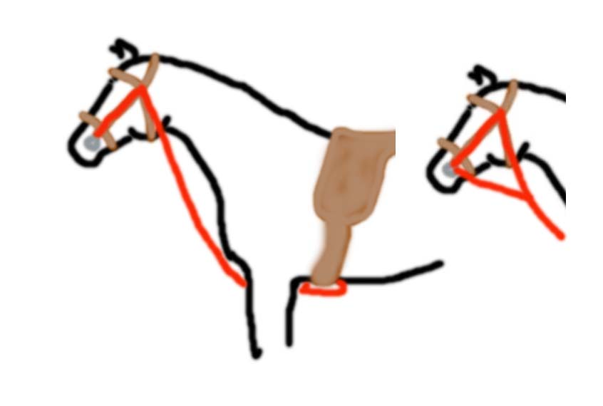 chambon and gogue on horse